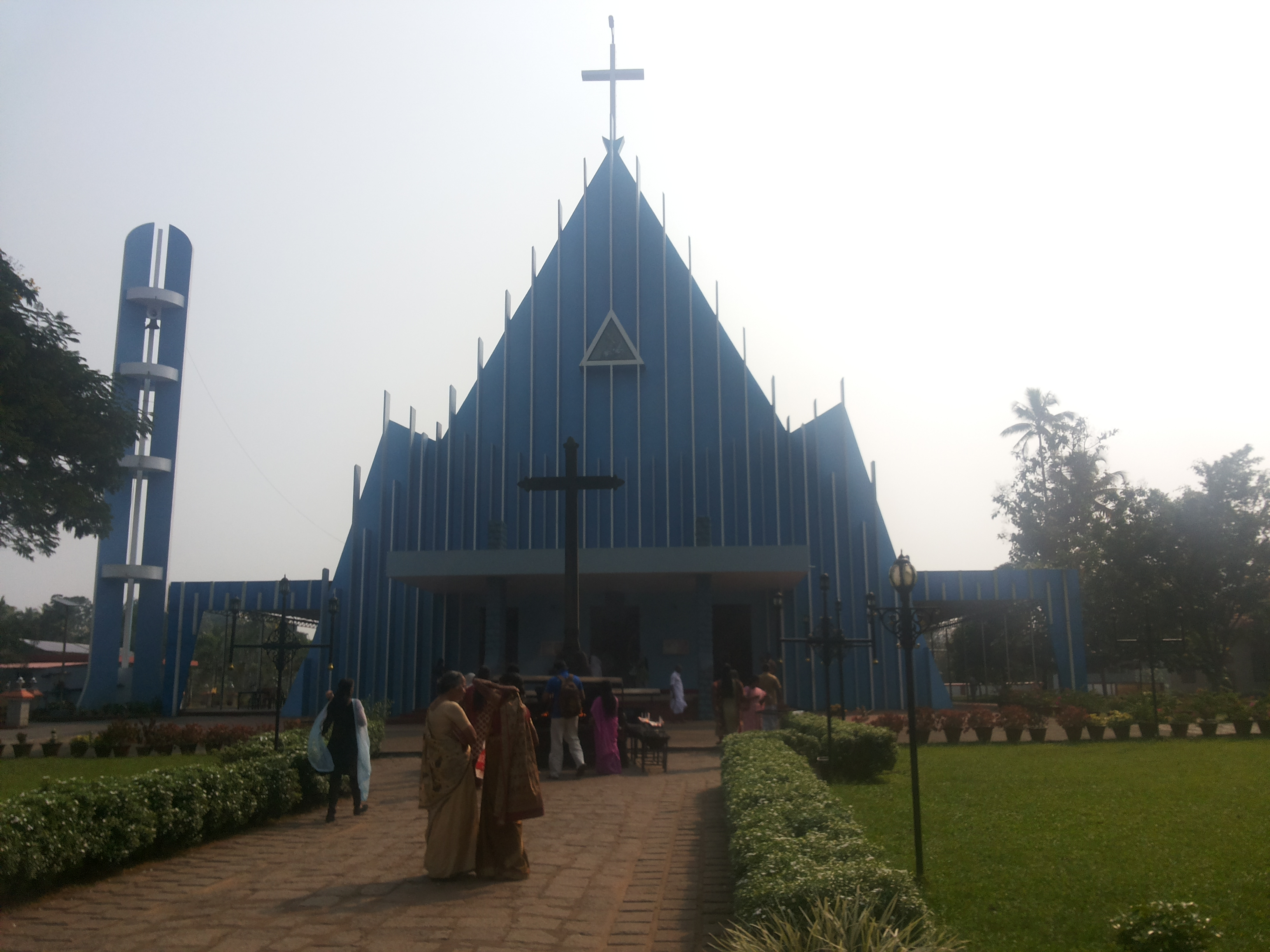 church muthalakodam